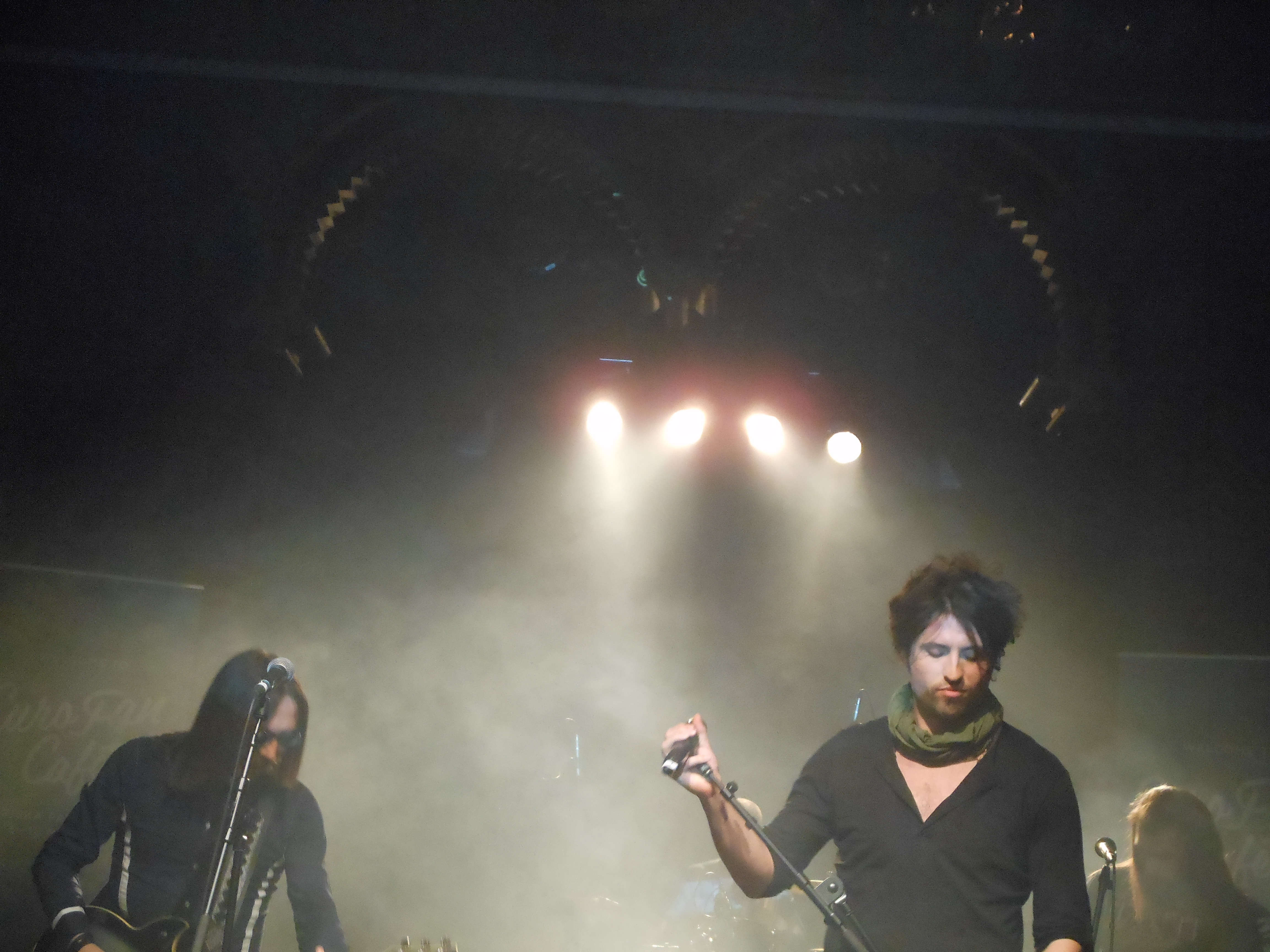 The Albanian Eurovision contestant live at the Euro Fan Café, Moriska Paviljongen, Folkets Park, Malmö